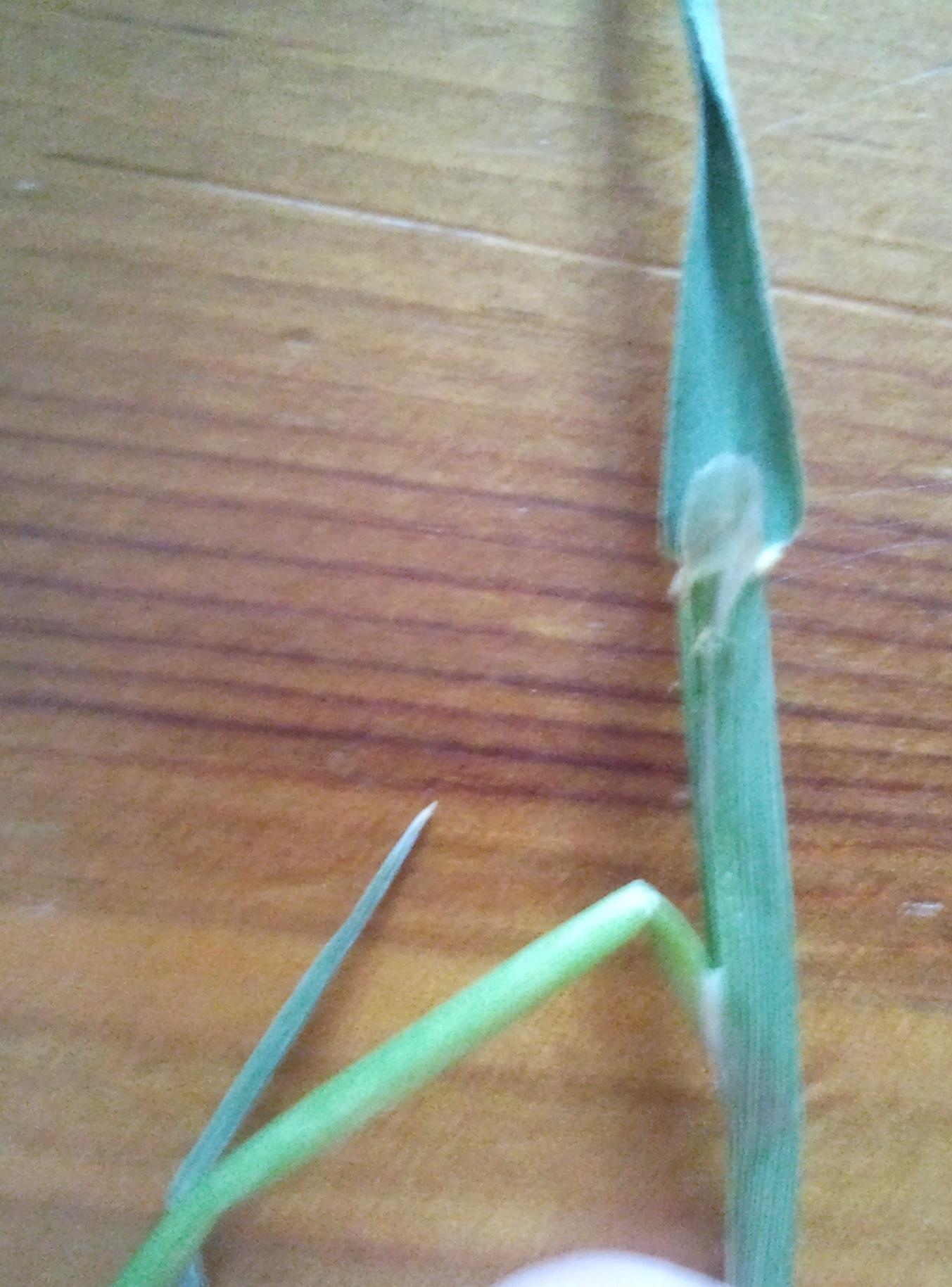 ligule of timothy (Phleum pratense L.), short and blunt